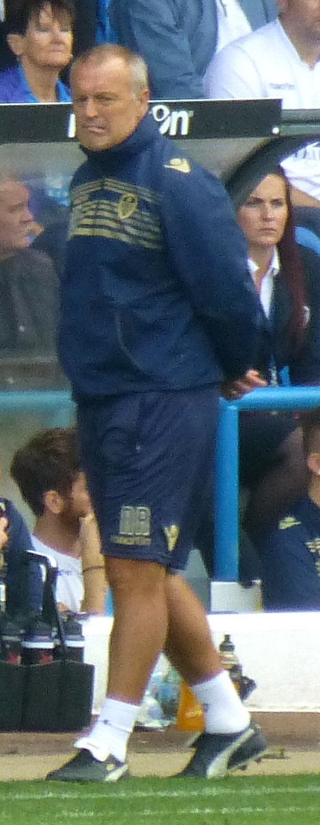 Neil Redfearn managing Leeds United against Bolton Wanderers at Elland Road, Leeds on 30 August 2014